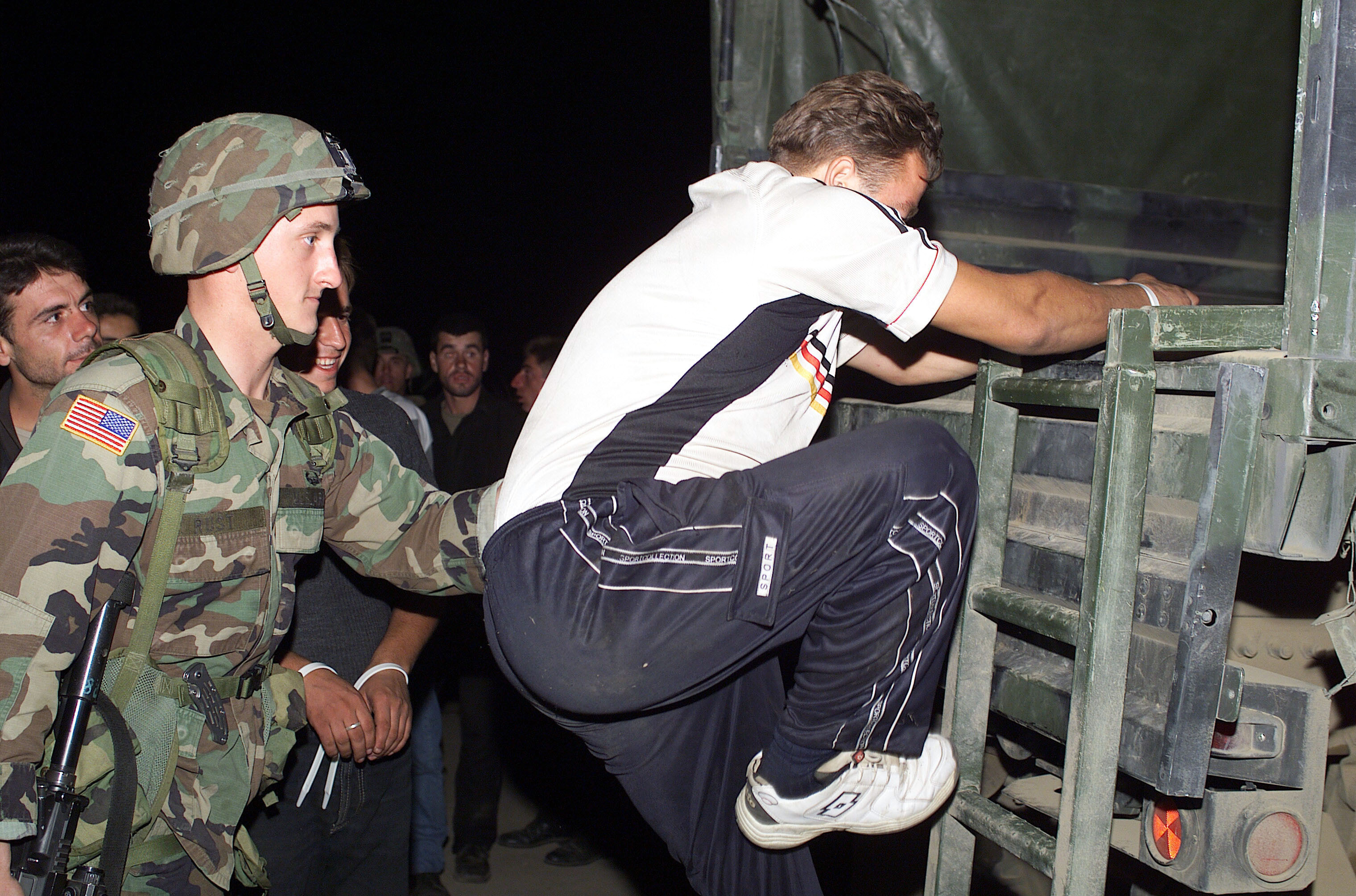 An ethnic Albanian rebel with the National Liberation Army (NLA) is loaded into transport truck for a ride to a detention center at Zegra Fire Base in Kosovo, during Operation JOINT GUARDIAN II: 08/27/2001